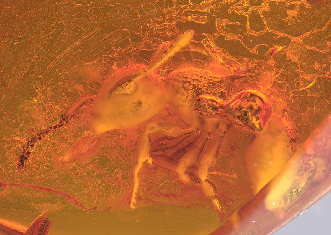 Profile view of the Stiphromyrmex robustus neotype worker. Middle Eocene; Baltic amber, Samland Peninsula, Kalingrad, Russia Museum ziemi PAN, Museum of the Earth of Polish Academy of Sciences, Warsaw, Poland. Specimen CASENT0917568